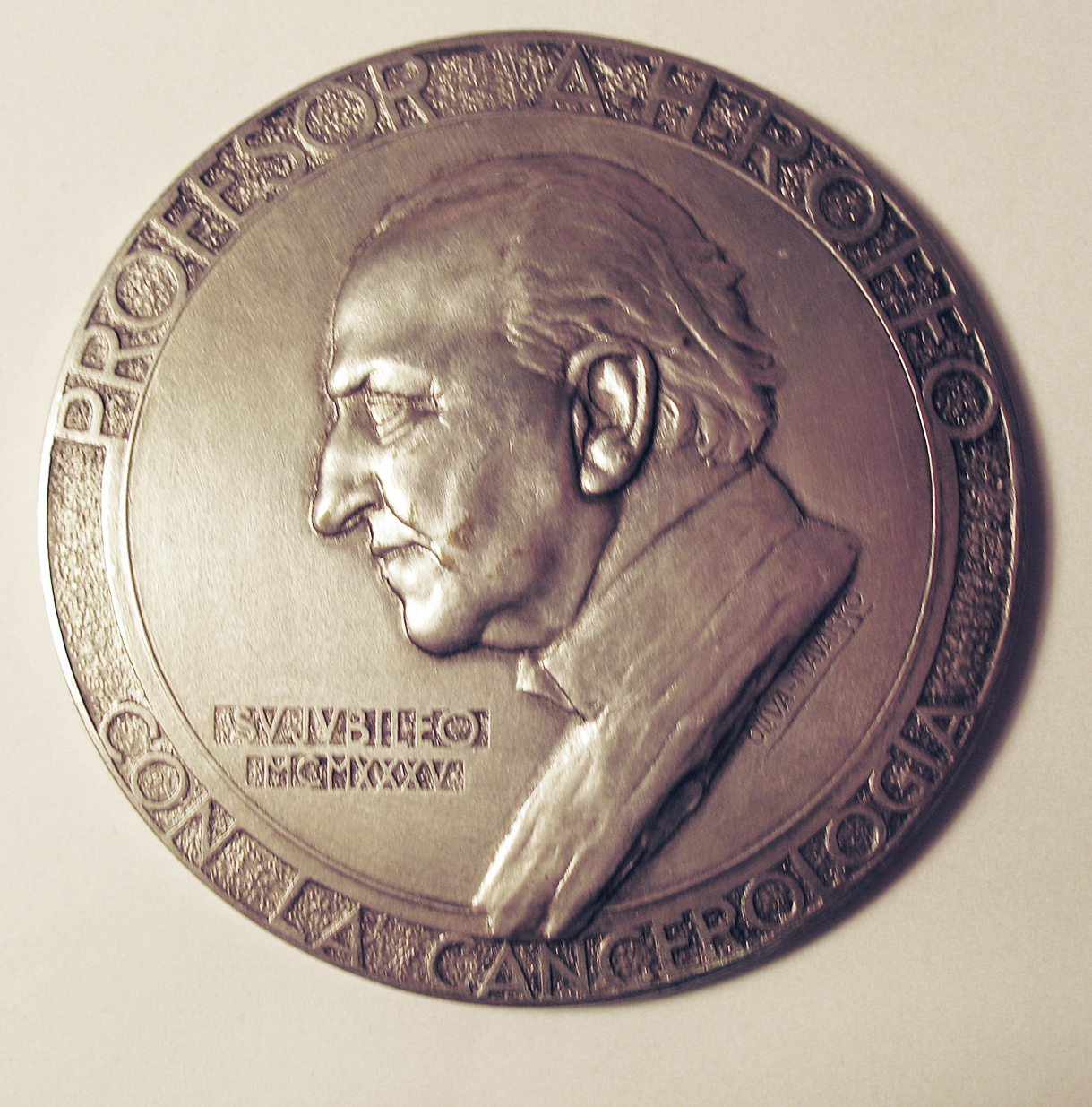 Medal of Angel Roffo by Oliva Navarro, 1935, obverse